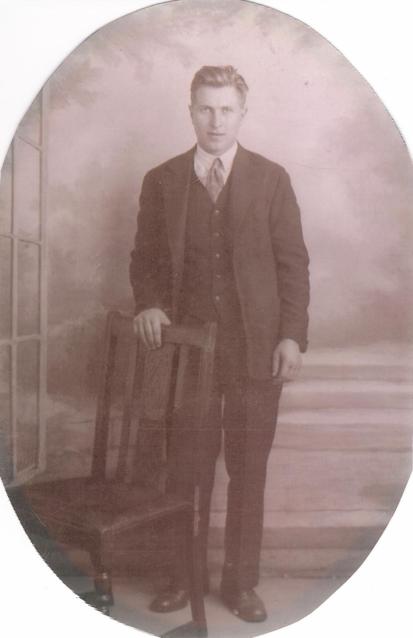 Portrait Hans Helle